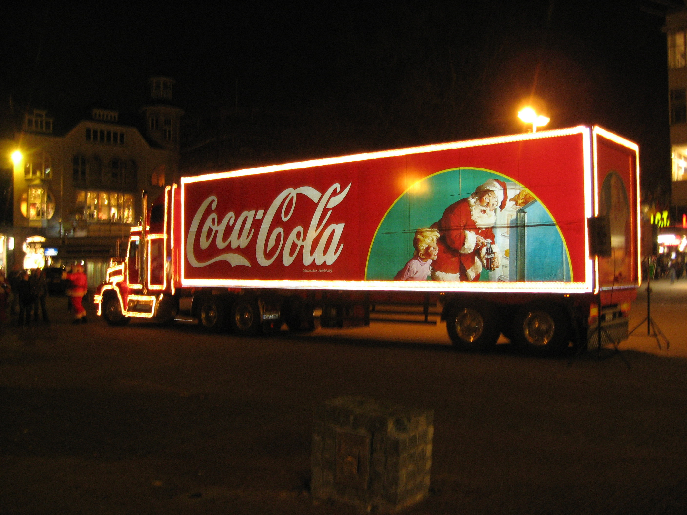 Coca-Cola Christmas truck. Photo made on Vredenburg square, Utrecht, the Netherlands.